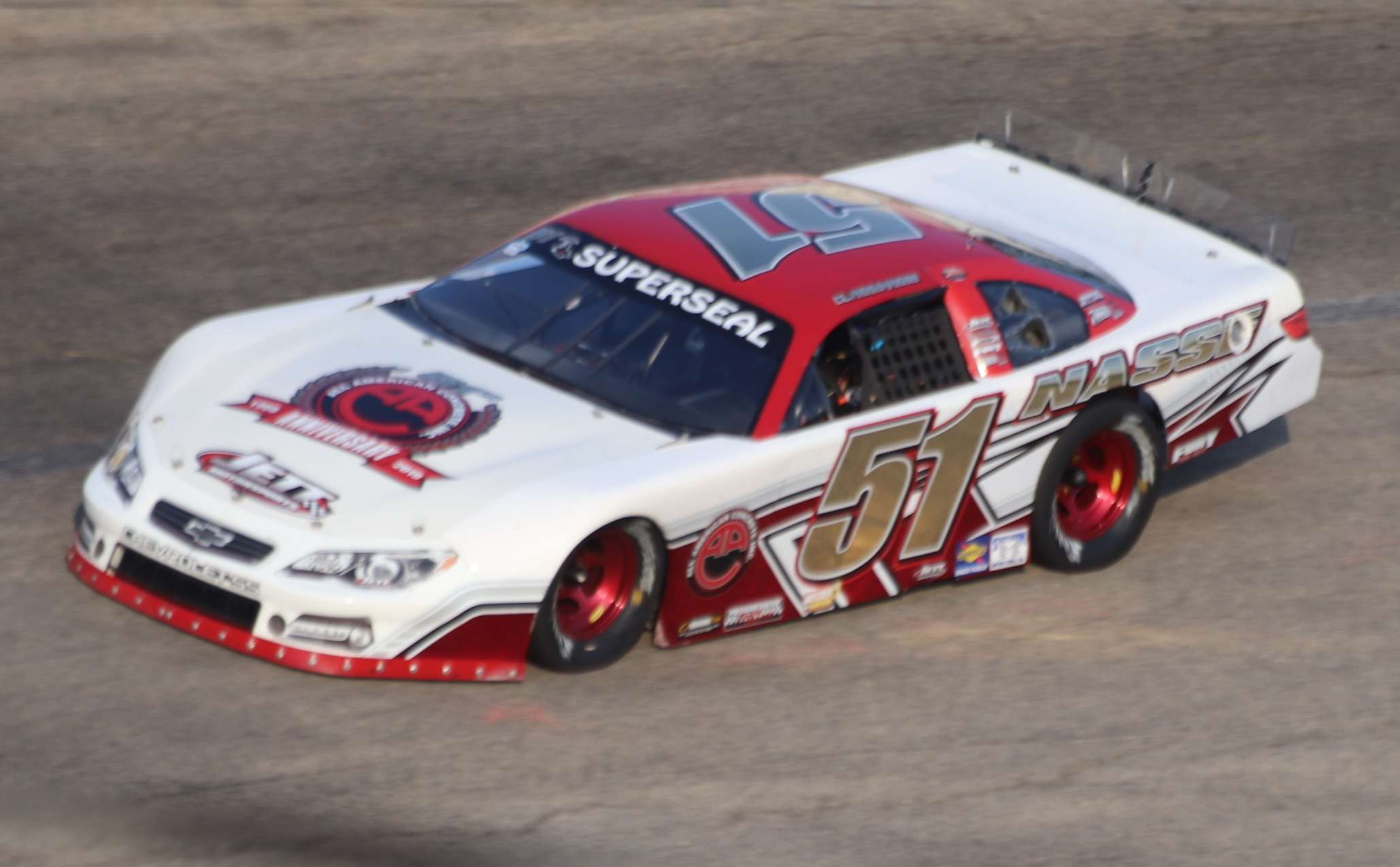 Stephen Nasse racing at the 2019 Slinger Nationals.